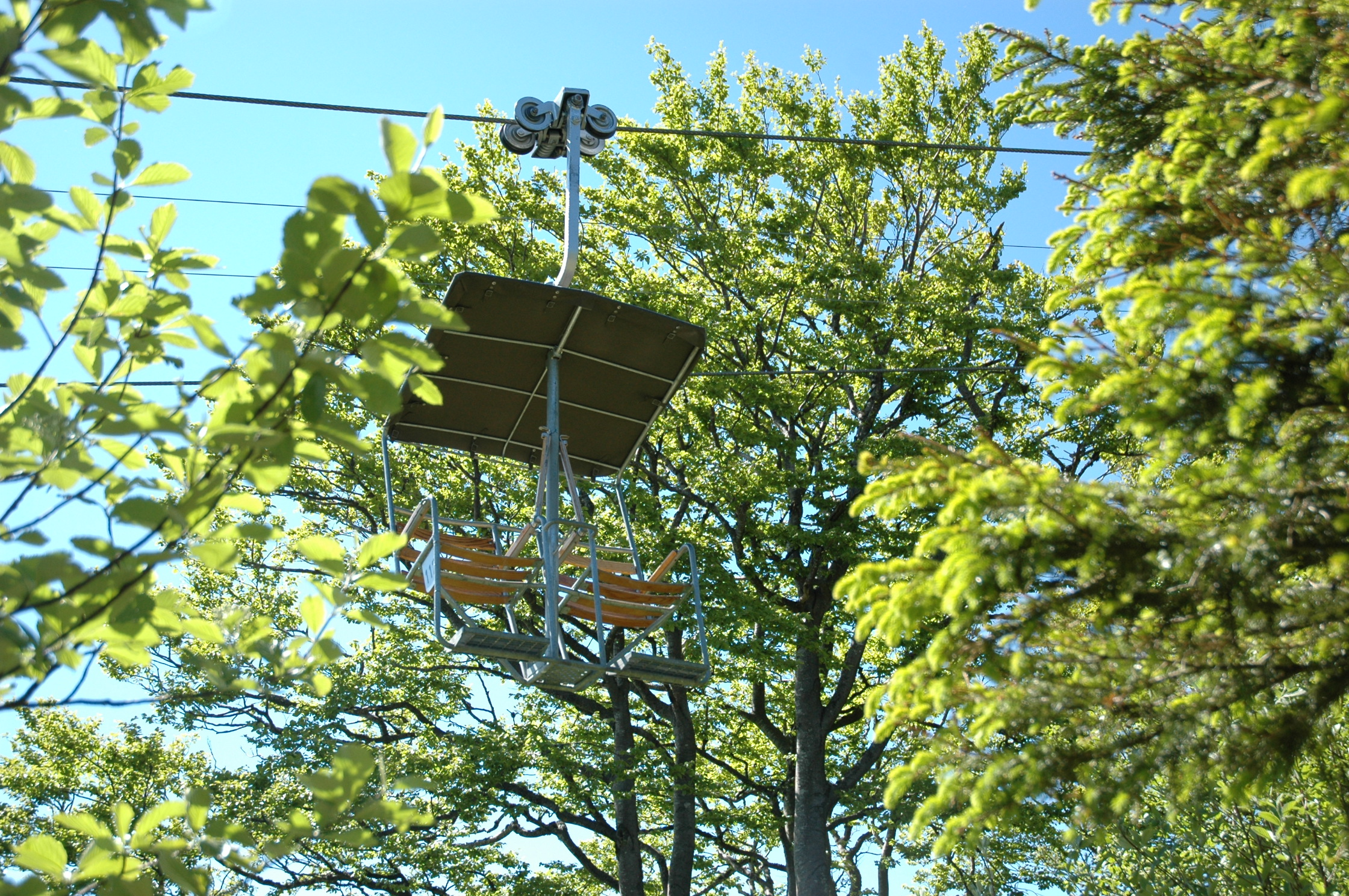 Chair of chairlift Oberdorf-Weissenstein, Switzerland.